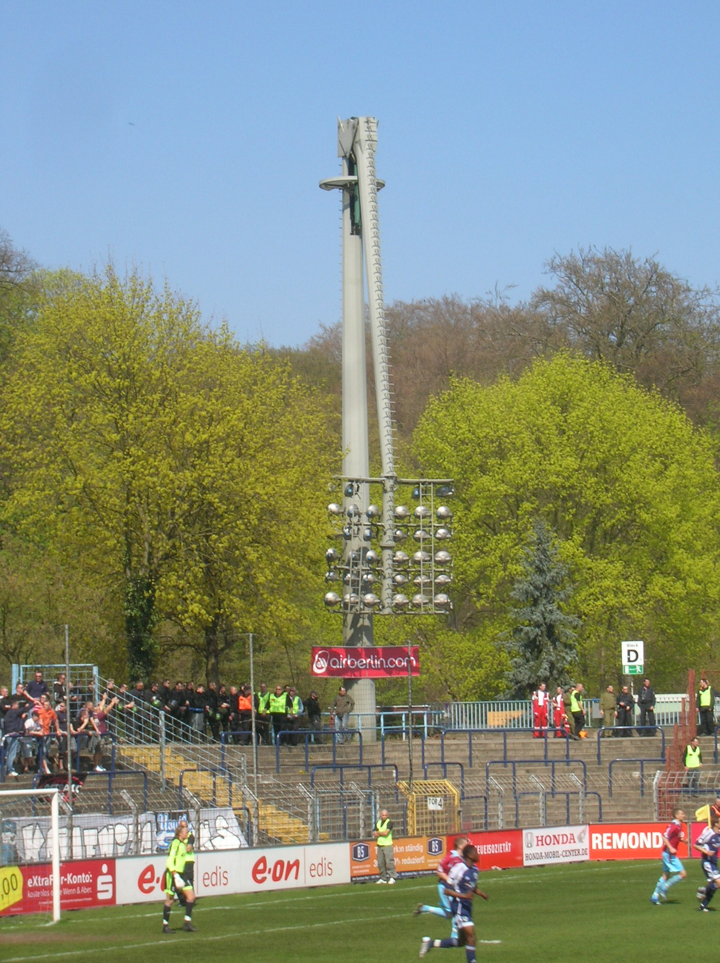 retractable Floodlights of the Karl-Liebknecht-Stadion